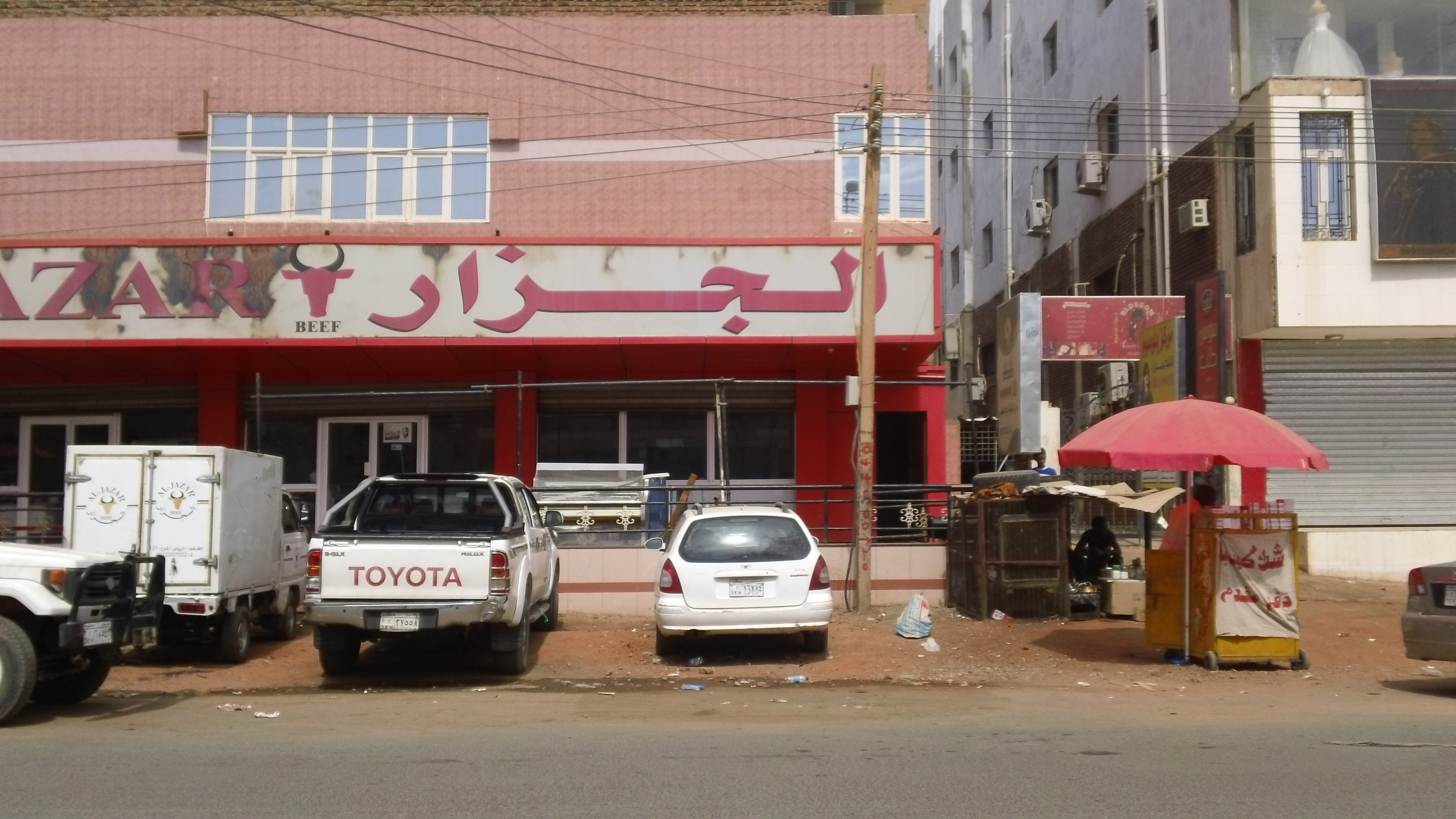 Sudan - Khartoum - Algzar Street